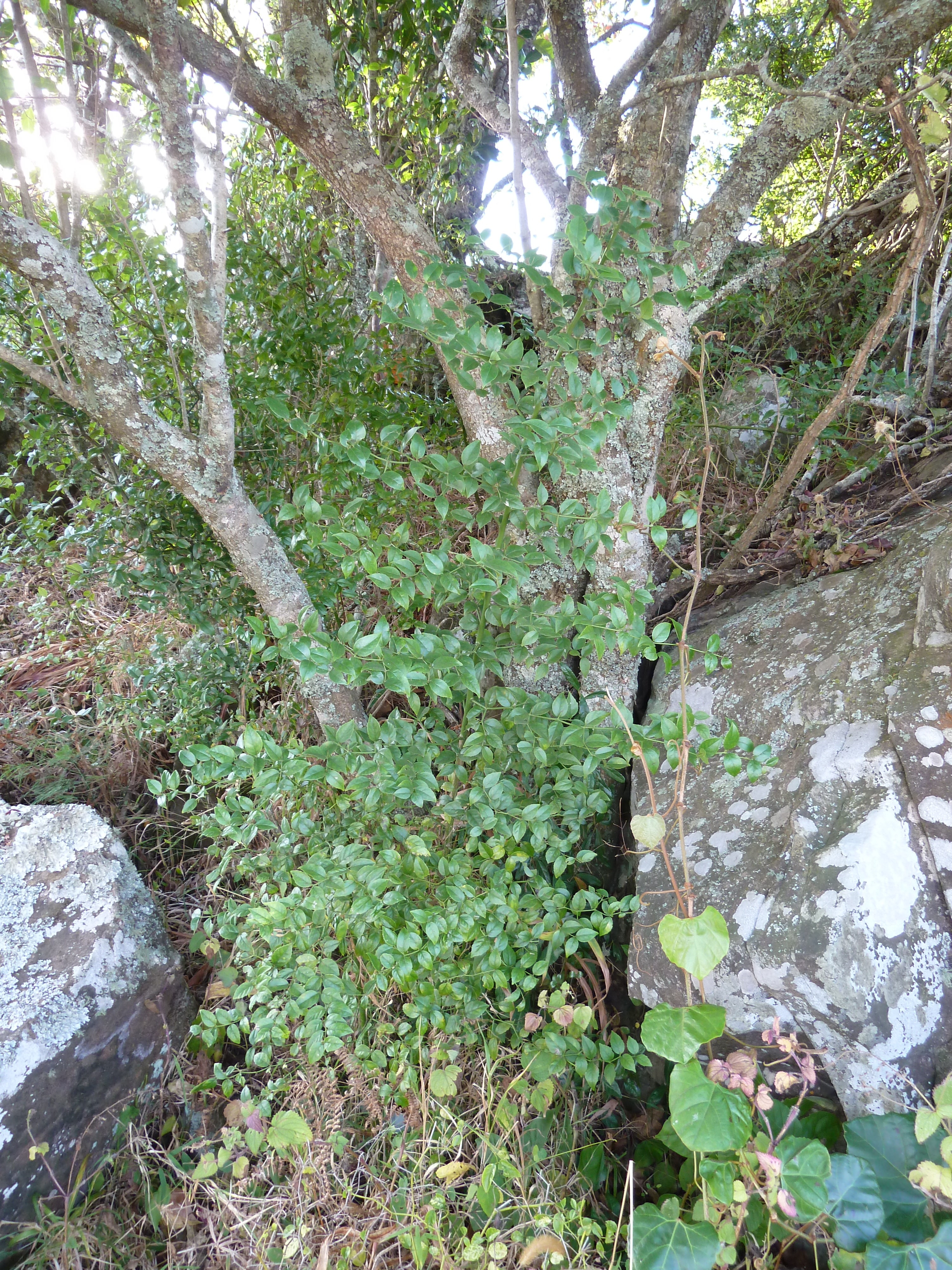 Lemon thorn shrub sprouting between rocks under tree canopy, near Louwsburg, KwaZulu-Natal